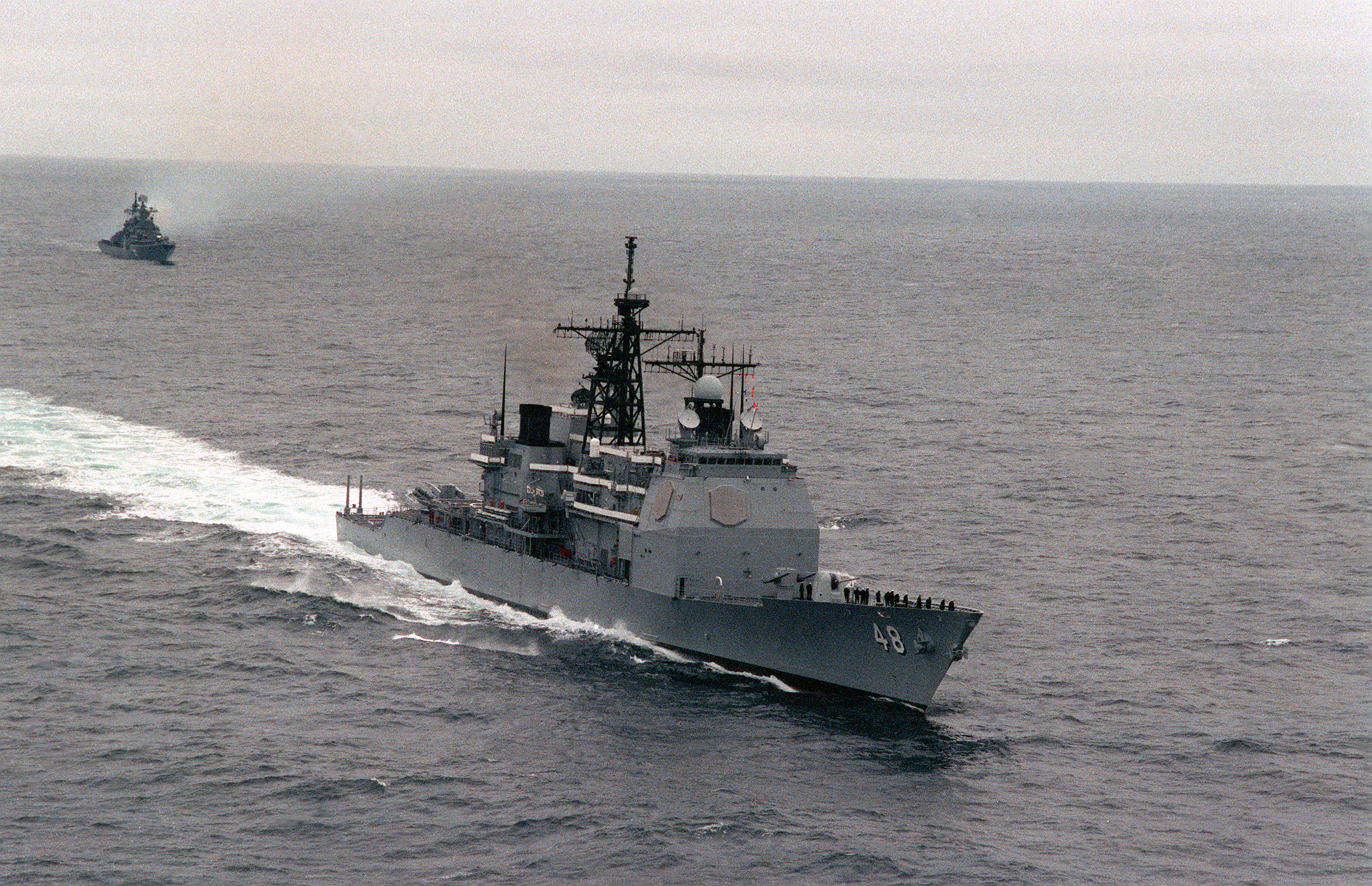 A starboard bow view of the guided missile cruiser USS Yorktown (CG-48) taking part in a naval exercise with the Russian guided missile destroyer Rastoropny in the Barents Sea. The Yorktown and the destroyer USS O'Bannon (DD-987) are visiting the Russian naval base at Severomorsk as part of an ongoing exchange between the navies of the United States and the Commonwealth of Independent States.